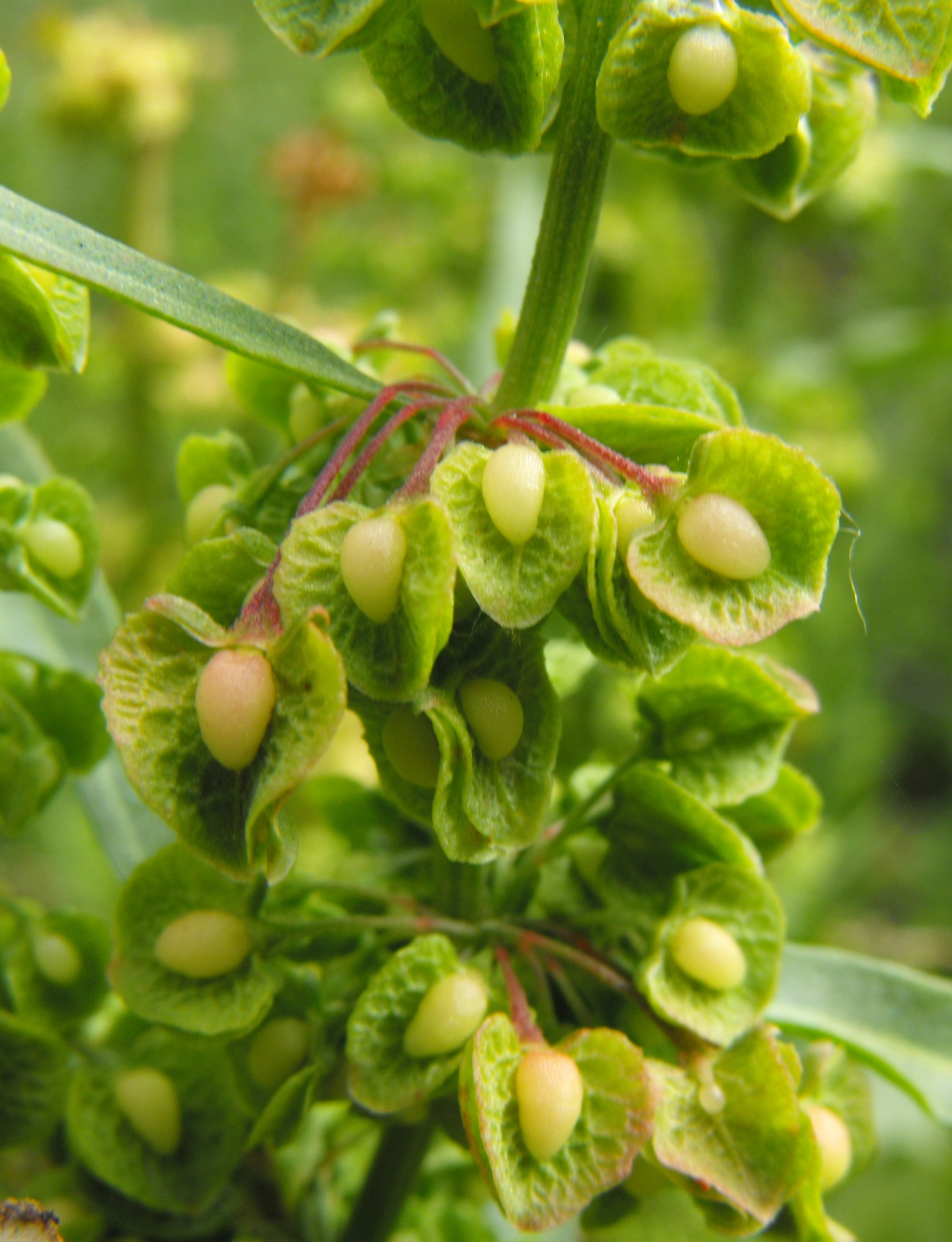 Rumex crispus fruiting at Los Peñasquitos Canyon Preserve, northern San Diego, Southern California. An invasive plant species in California.